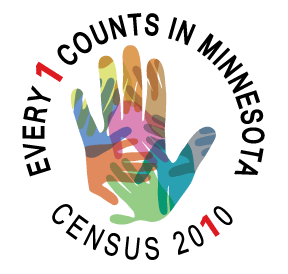 Minnesota Census 2010 Logo